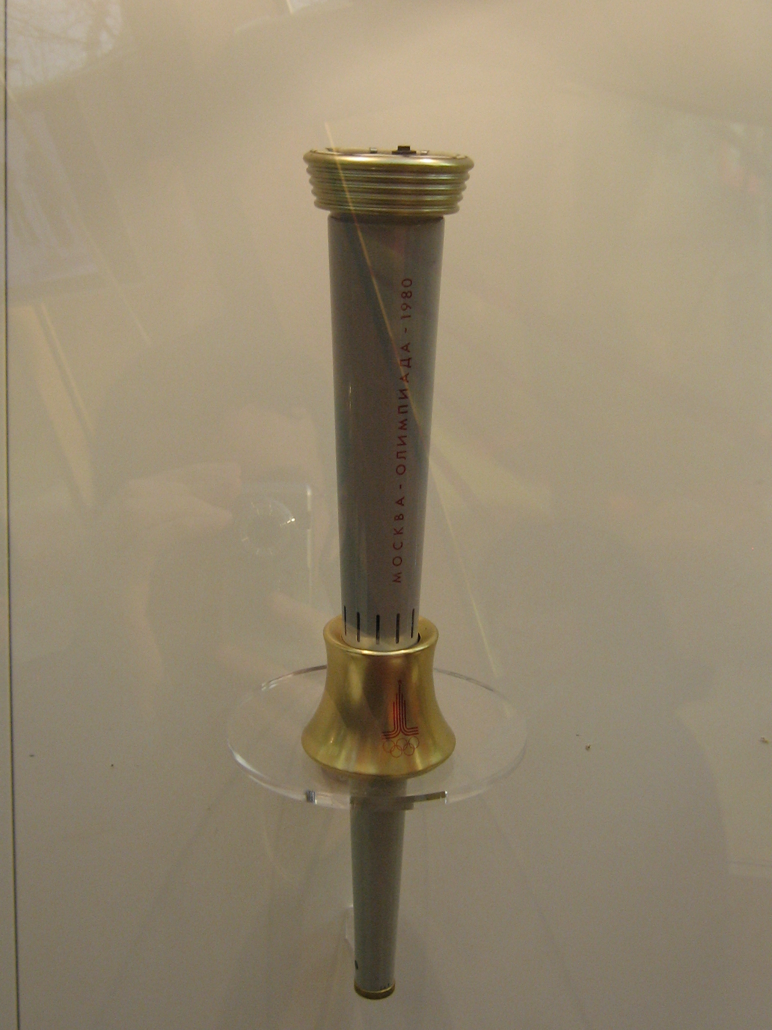 Moscow 1980 Olympic torch, Olympic museum Lausanne, temporary exhibition in Turin (Atrium Torino)